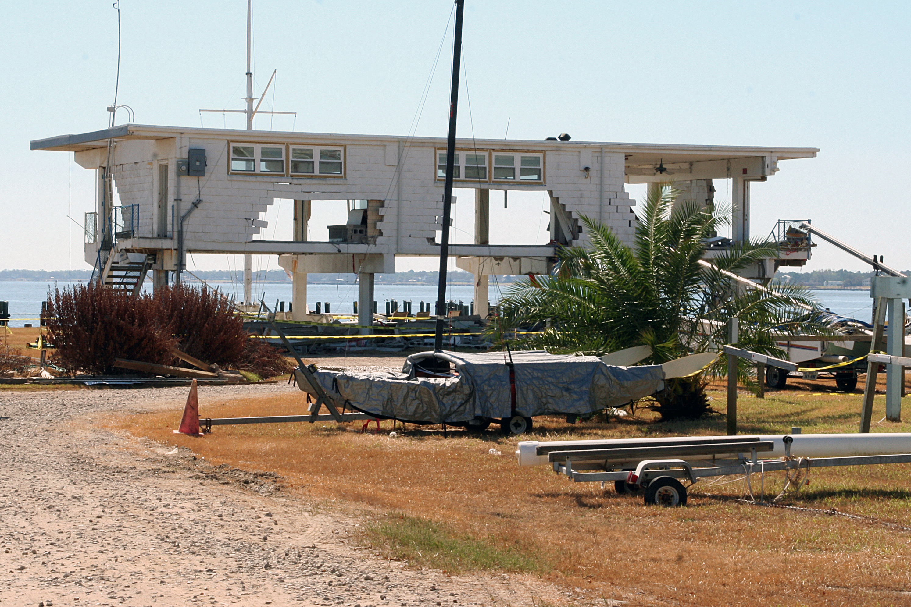 Seabrook, TX, October 2, 2008 -- This is all that is left of the Seabrook Sailing Clubhouse on Toddville Road, on Galveston Bay, after Hurricane Ike struck. Homes and buildings built to newer codes had a much higher survival rate. Photo by Greg Henshall / FEMA